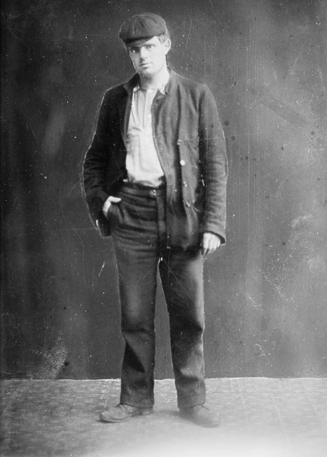 Jack London